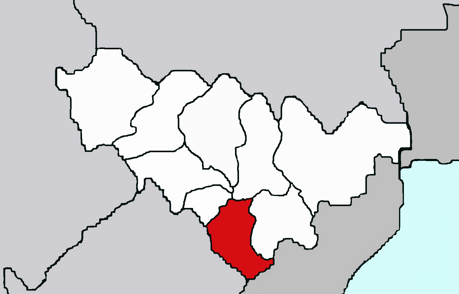 Maps of Jilin Province , China